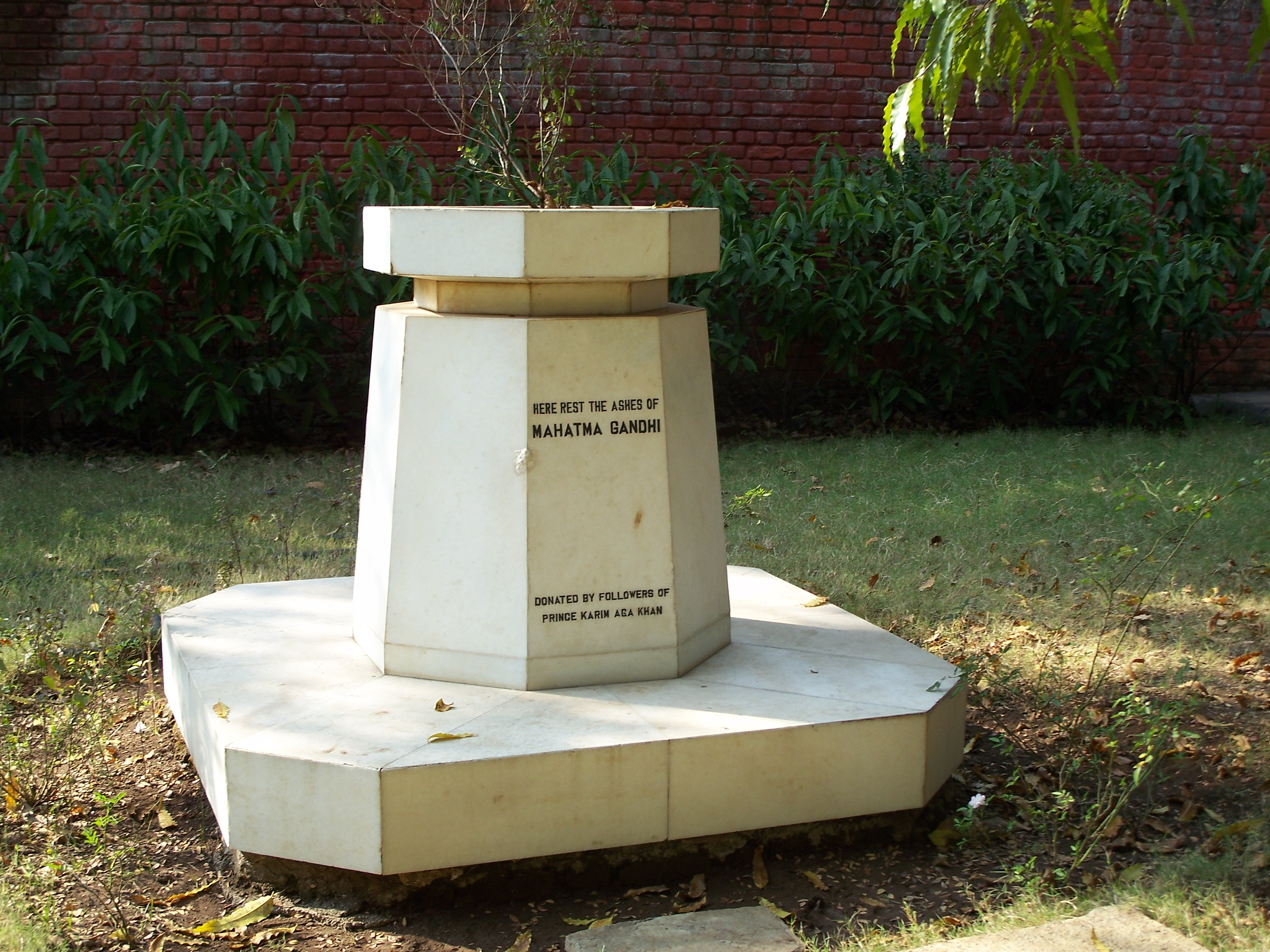 Gandhi's ashes at Aga Khan Palace (Pune, India).